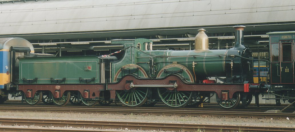 Preserved former SS steam locomotive 326 in Amersfoort before returning to the Dutch Railwaymuseum which has been rebuild.